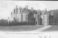 Rutherfurd Hall in the early 1900s